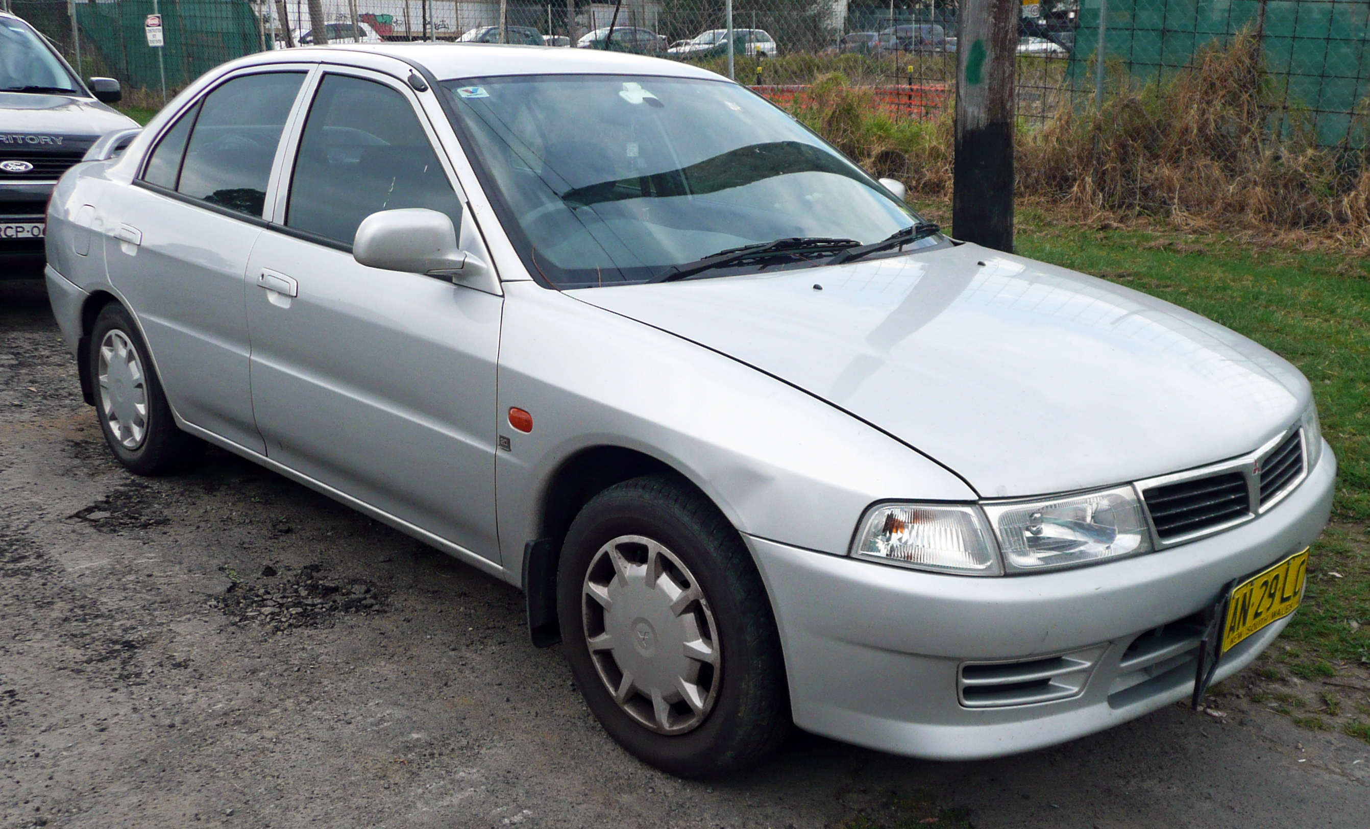 2001 Mitsubishi Lancer (CE2) GLXi sedan. Photographed in Sutherland, New South Wales, Australia.